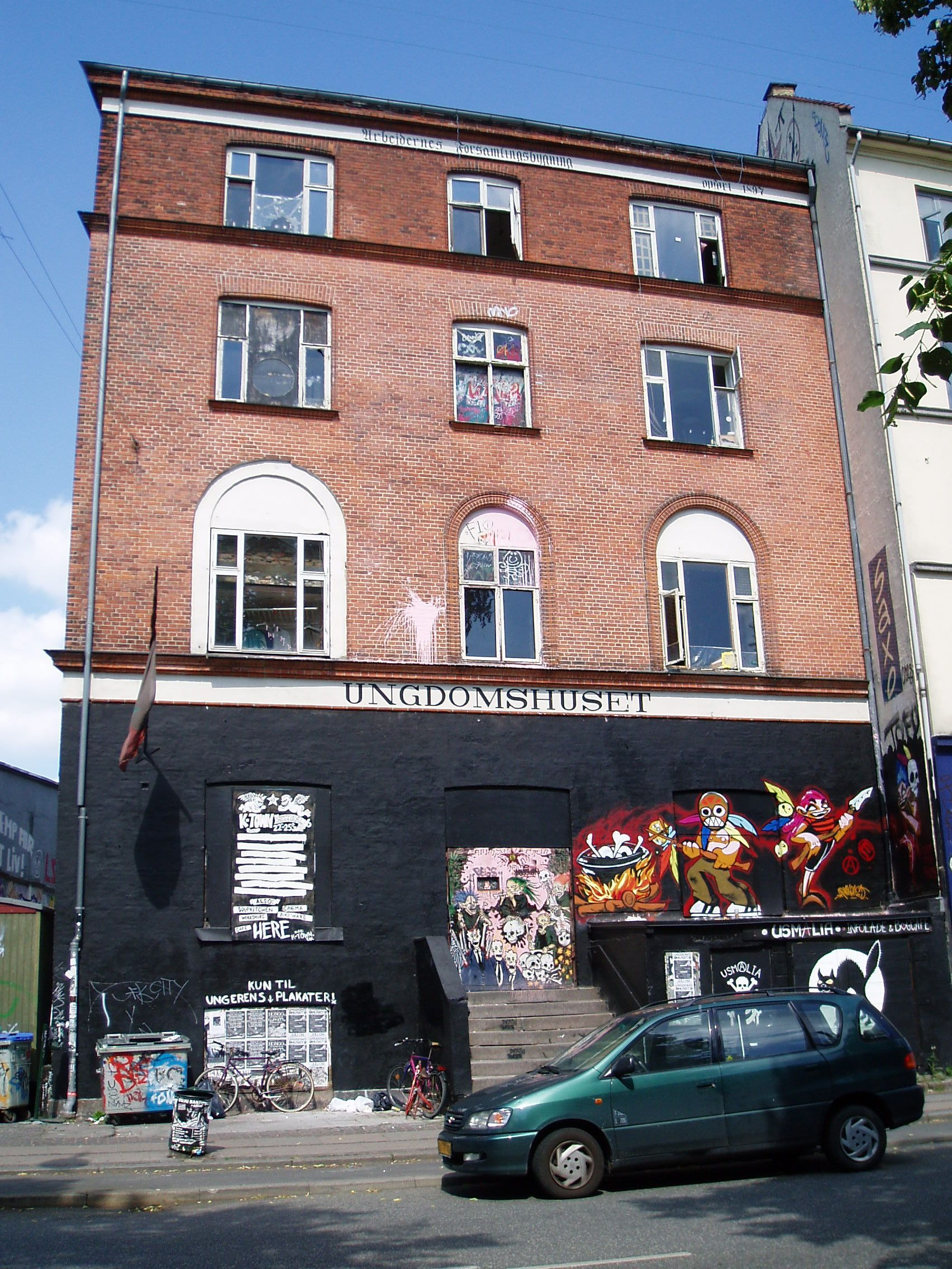 The Youth House ("Ungdomshuset") on Jagtvej in Copenhagen. The house was widely known as a place for young people, especially from the left-wing. Furthermore some autonomists were using the house as a meeting place. In March 2007, the house was torn down by its owner "faderhuset" after it was evicted by the police. For several days, users of the house demonstrated in the streets of Copenhagen, burning cars and throwing bricks at the police.